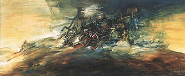 1 Painting Apocalípico I (Apocalyptic I) by Mauricio García Vega